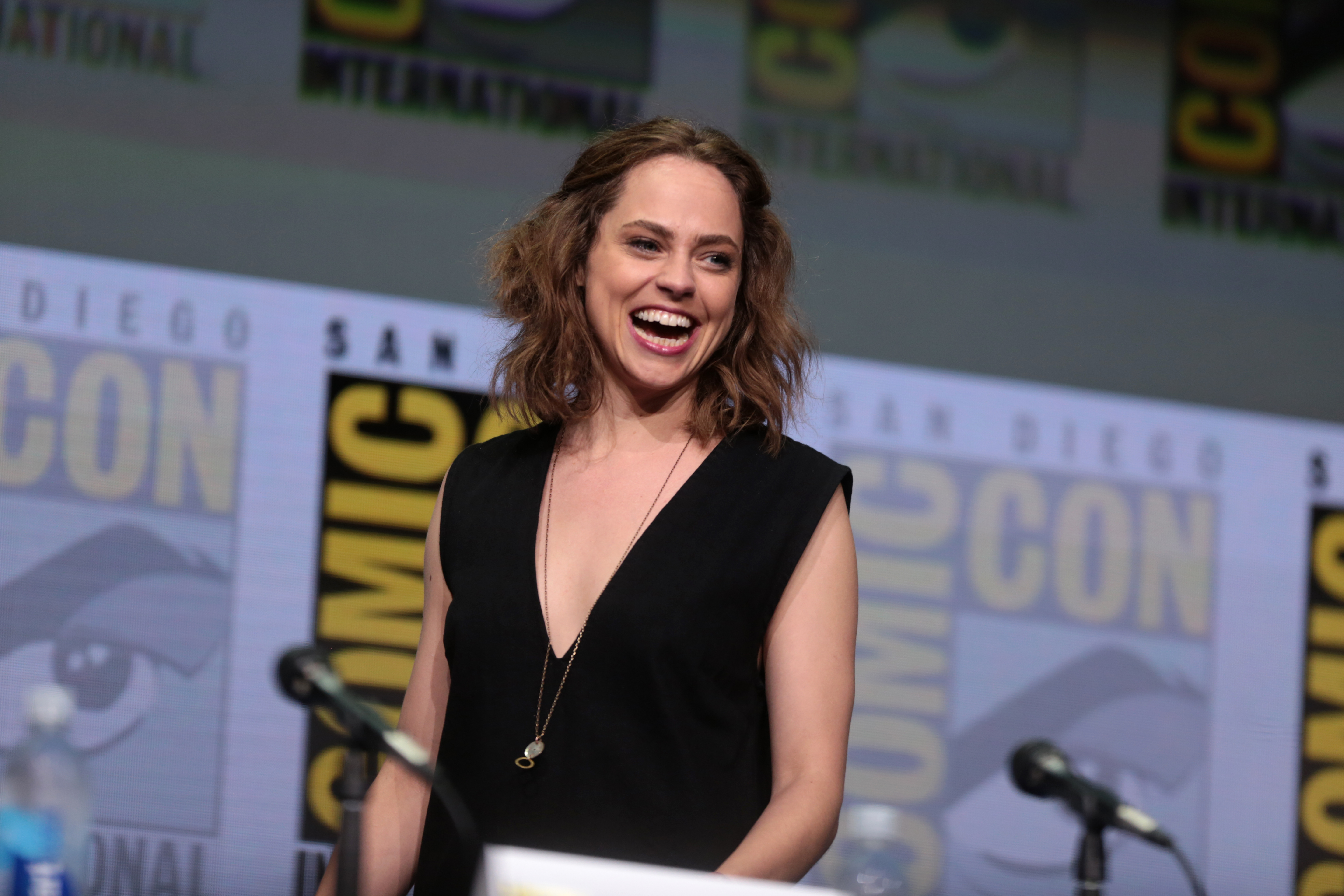 Fiona Dourif speaking at the 2017 San Diego Comic Con International, for "Dirk Gently's Holistic Detective Agency", at the San Diego Convention Center in San Diego, California.